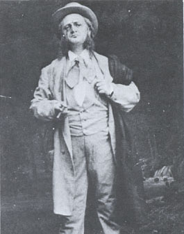 Actor Henrik Klausen as "Peer Gynt"